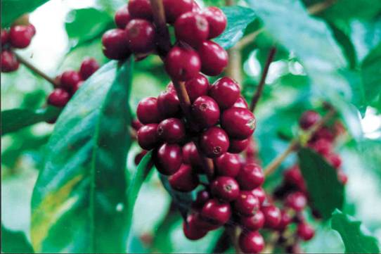 This is a picture of coffe plants in high mountains of Atoyac